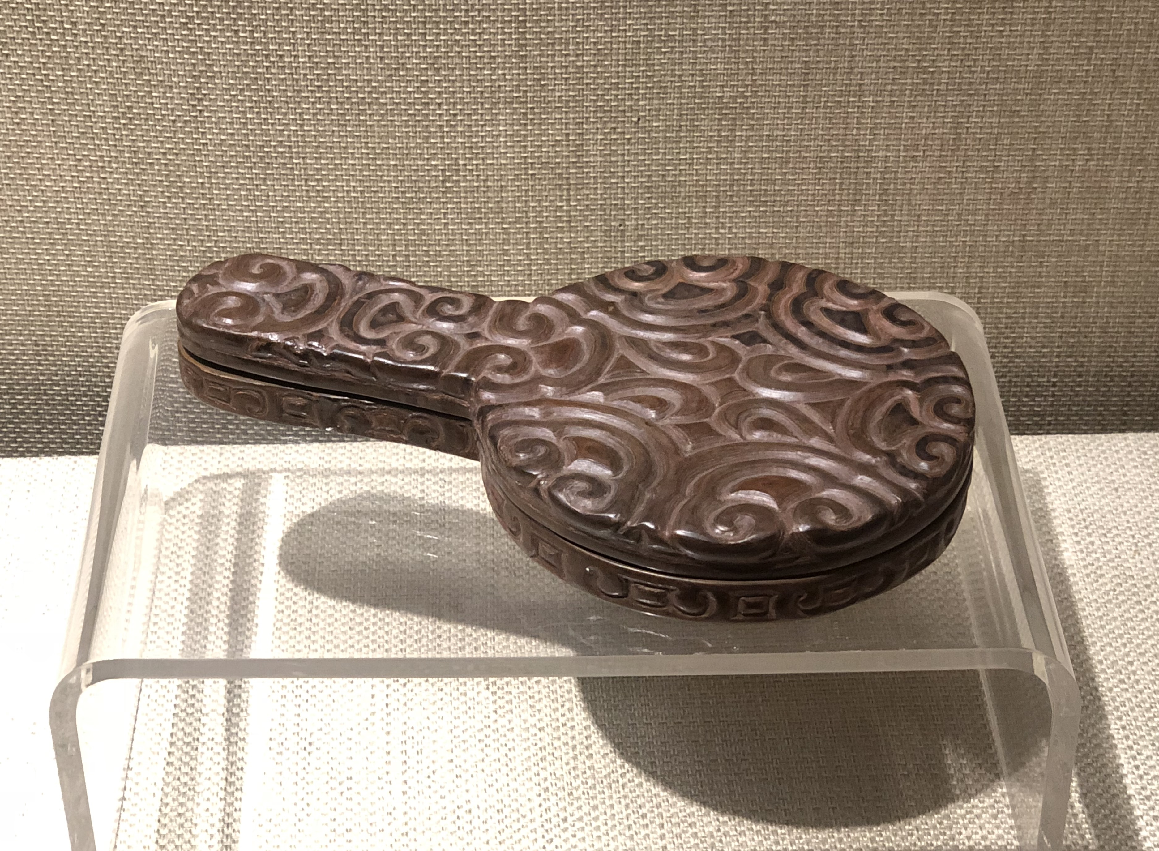 Carved Black Lacquer Box for Handheld Mirror 南宋 1976年武进村前公社蒋塘宋墓出土